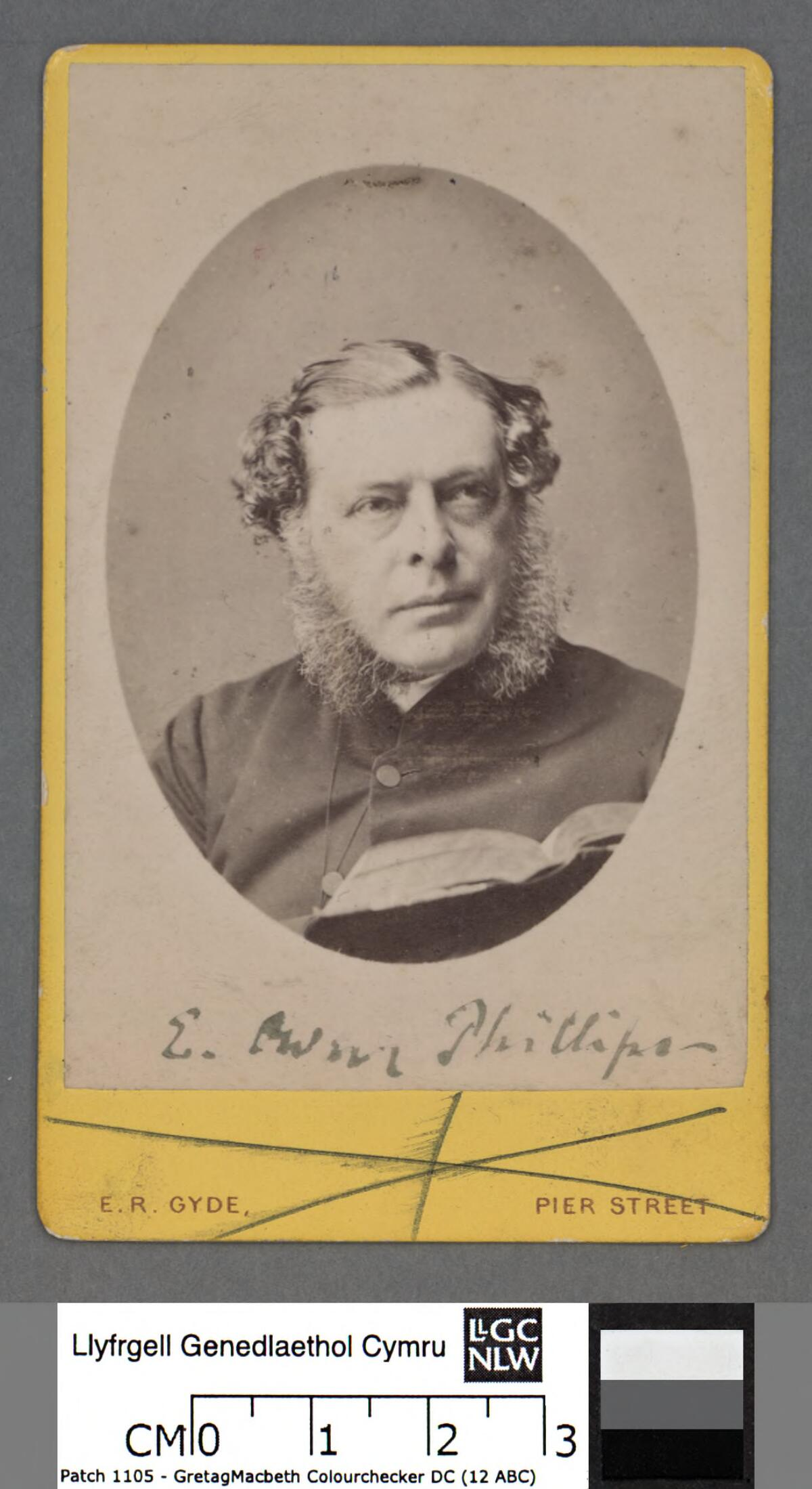 A portrait from the Welsh Portrait Collection at the National Library of Wales. Depicted person: Owen Phillips – Welsh Anglican priest